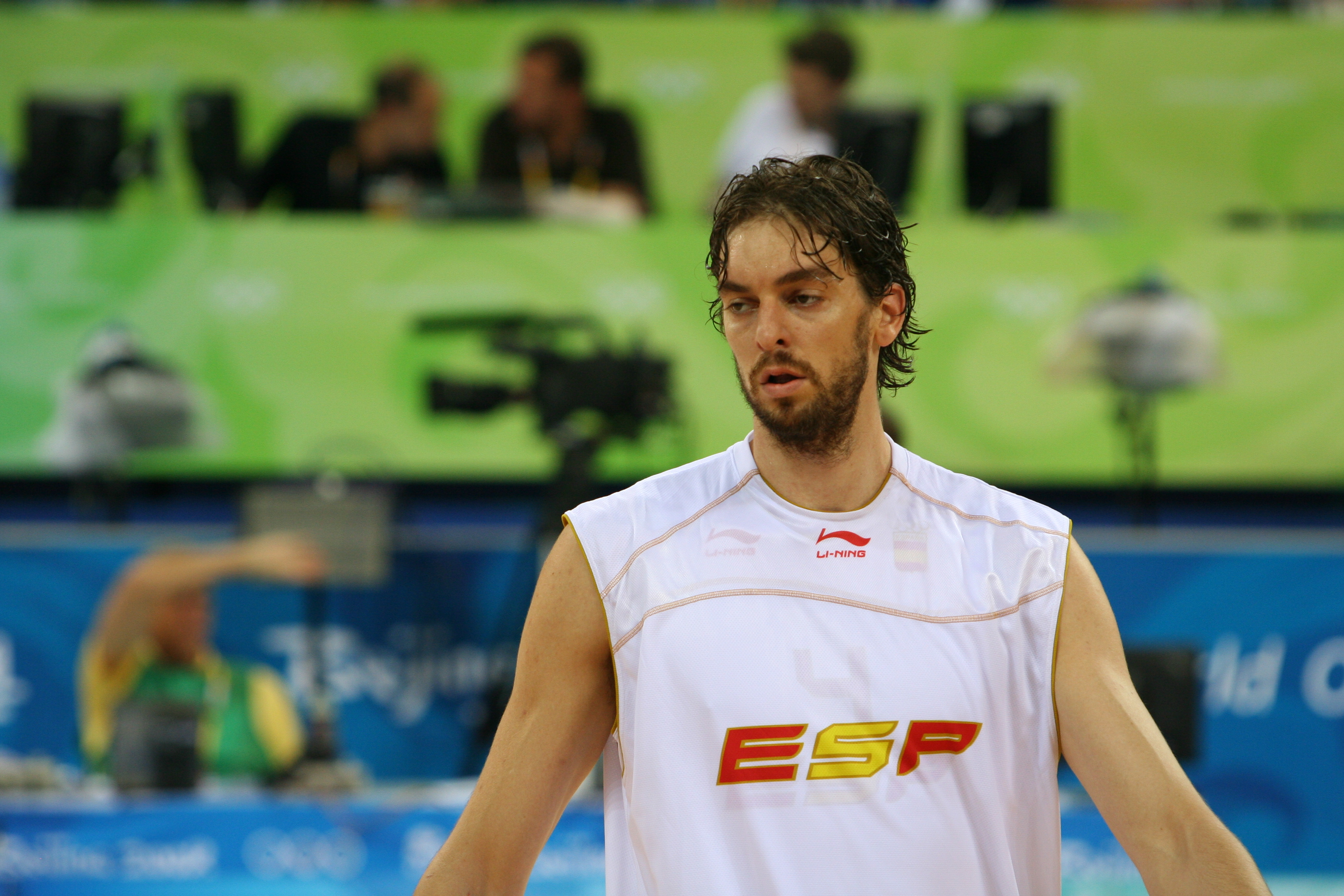 Pau Gasol of the Los Angeles Lakers, Spain